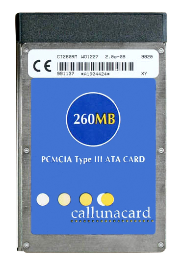 Hard disc with 260 MB capacity and PCMCIA computer interface --Part of this image was modified in order to remove copyrighted parts of the image.